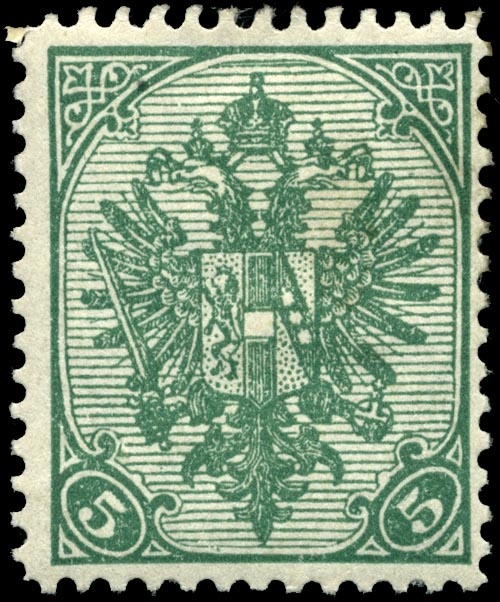 Bosnia and Herzegovina 5-heller stamp of 1900